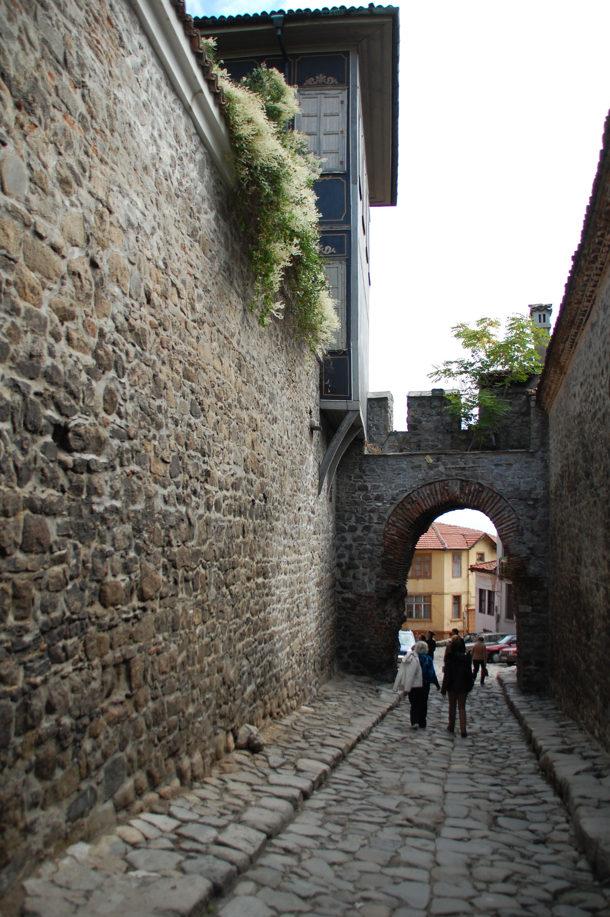 "The old town in Plovdiv was such a pleasant place to walk around. It looked like the streets hadn't changed at all in the last few hundred years. Aside from a hellacious hostel experience (a story for another time), it was a great place to spend a couple days."